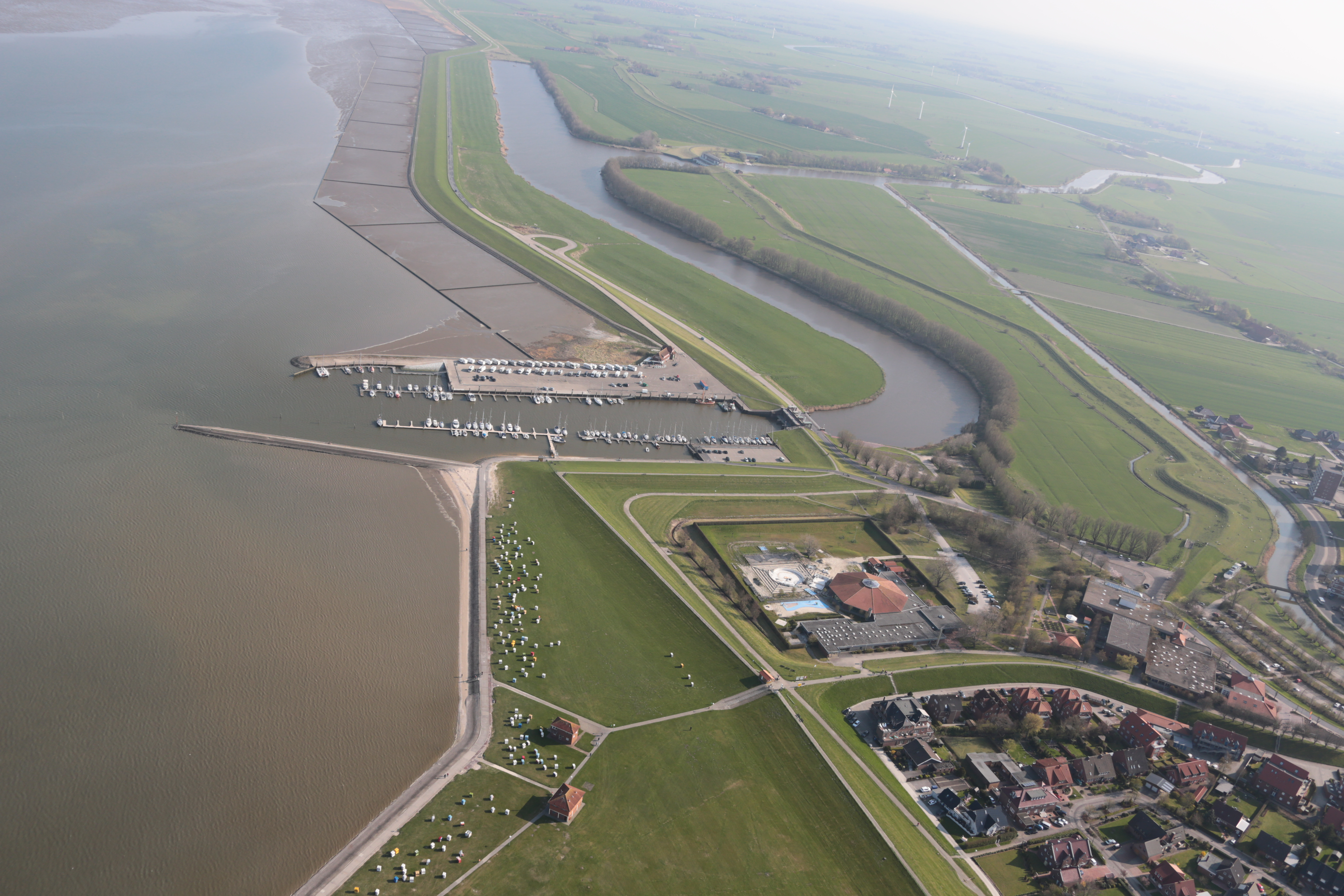 Fotoflug von Nordholz-Spieka nach Oldenburg und Papenburg This photo was taken by Alchemist-hp. If you use one of my photos, an email (account needed) or a message or direct to: my email account would be greatly appreciated. Please note the license terms. Other licensing terms can get discussed, too. This file is copyrighted and has been released under a license which is incompatible with Facebook's licensing terms. It is not permitted to upload this file to Facebook.